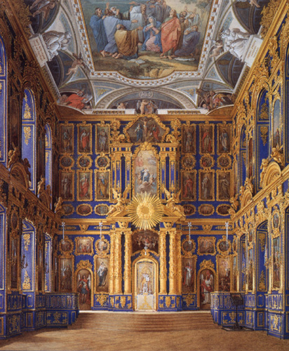 Pushkin (Russia), Palace Chapel of the Catherine Palace